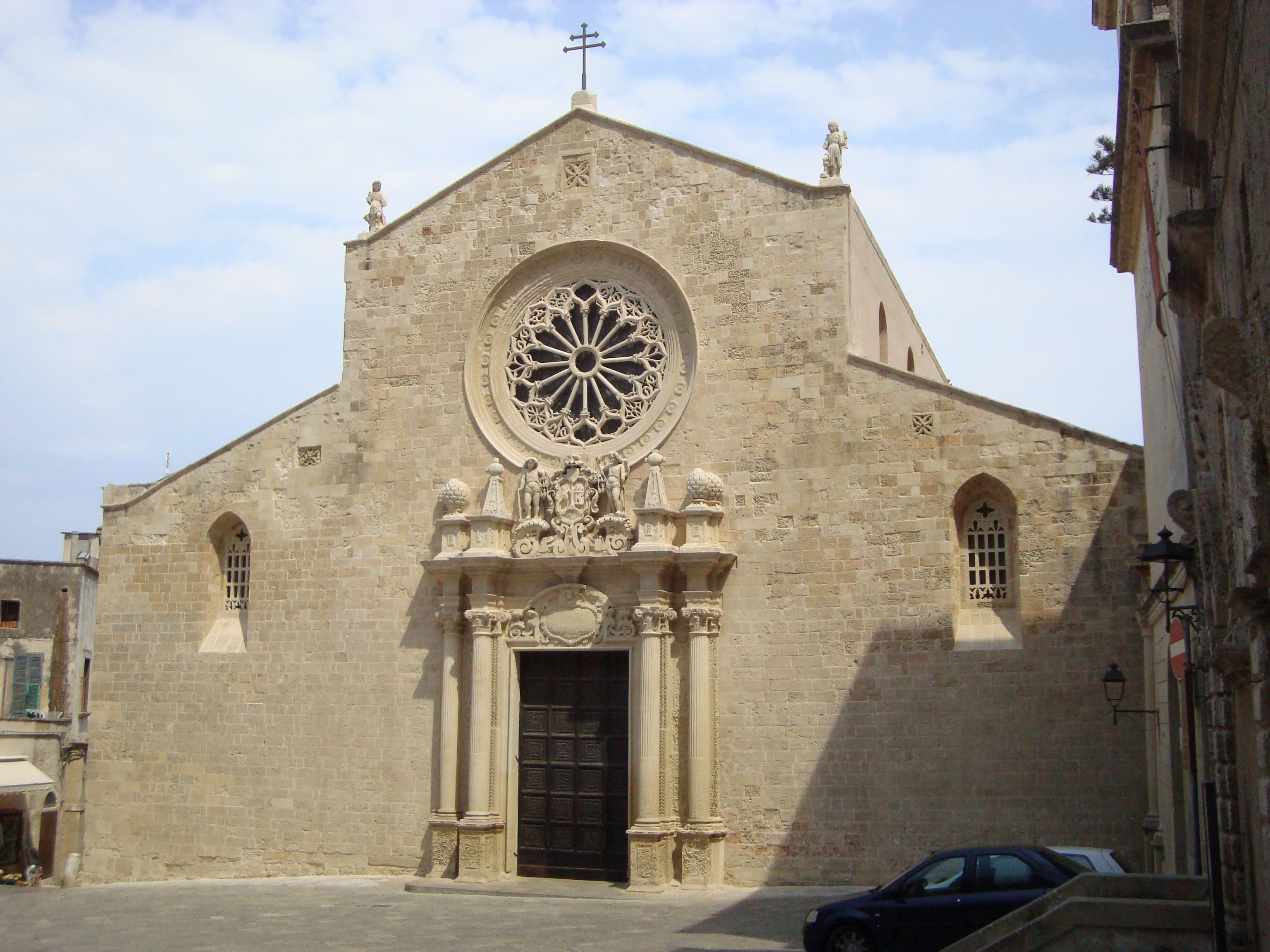 The Cathedral in Otranto, Apulia